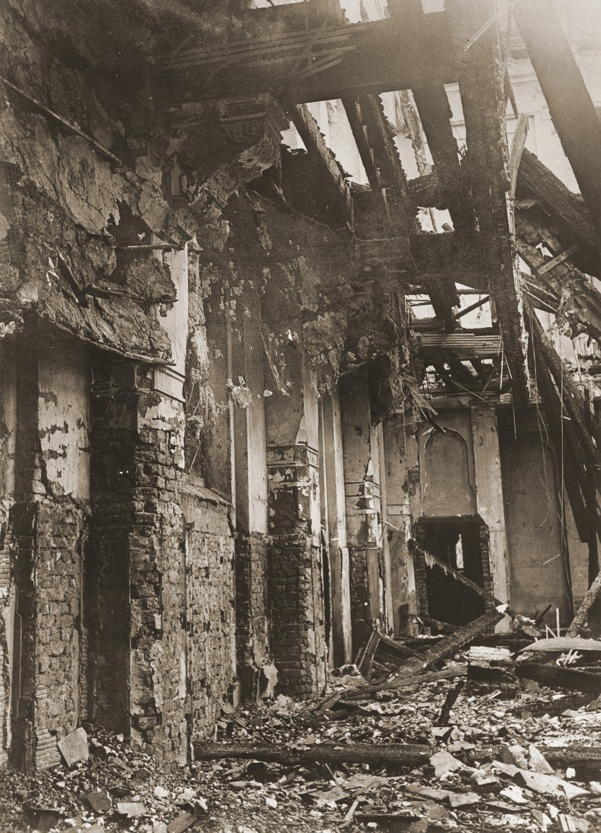 see title